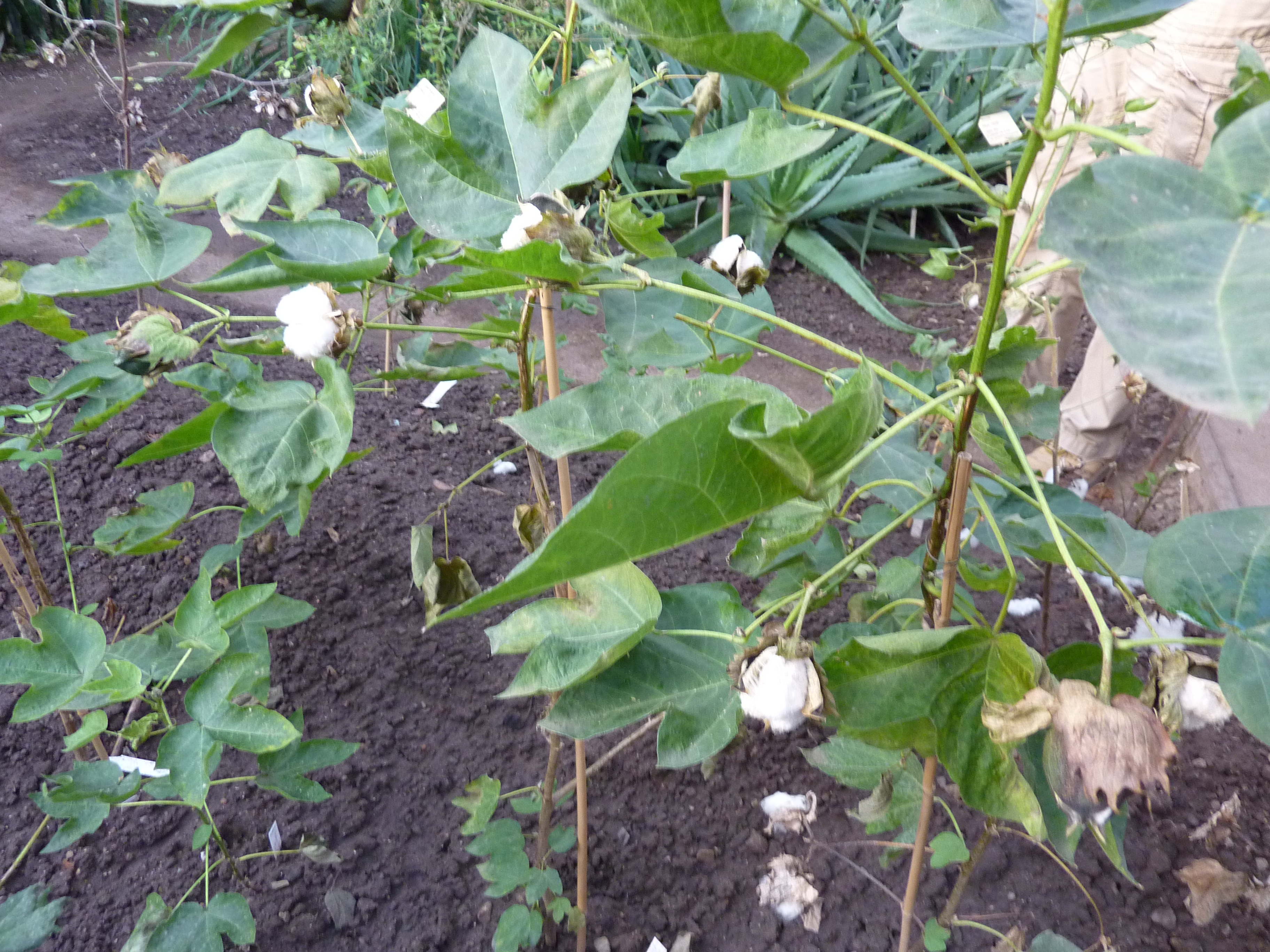 Gossypium hirsutum (cotton) growing in the greenhouse of the Deutsches Institut für tropische und subtropische Landwirtschaft, Witzenhausen, Germany